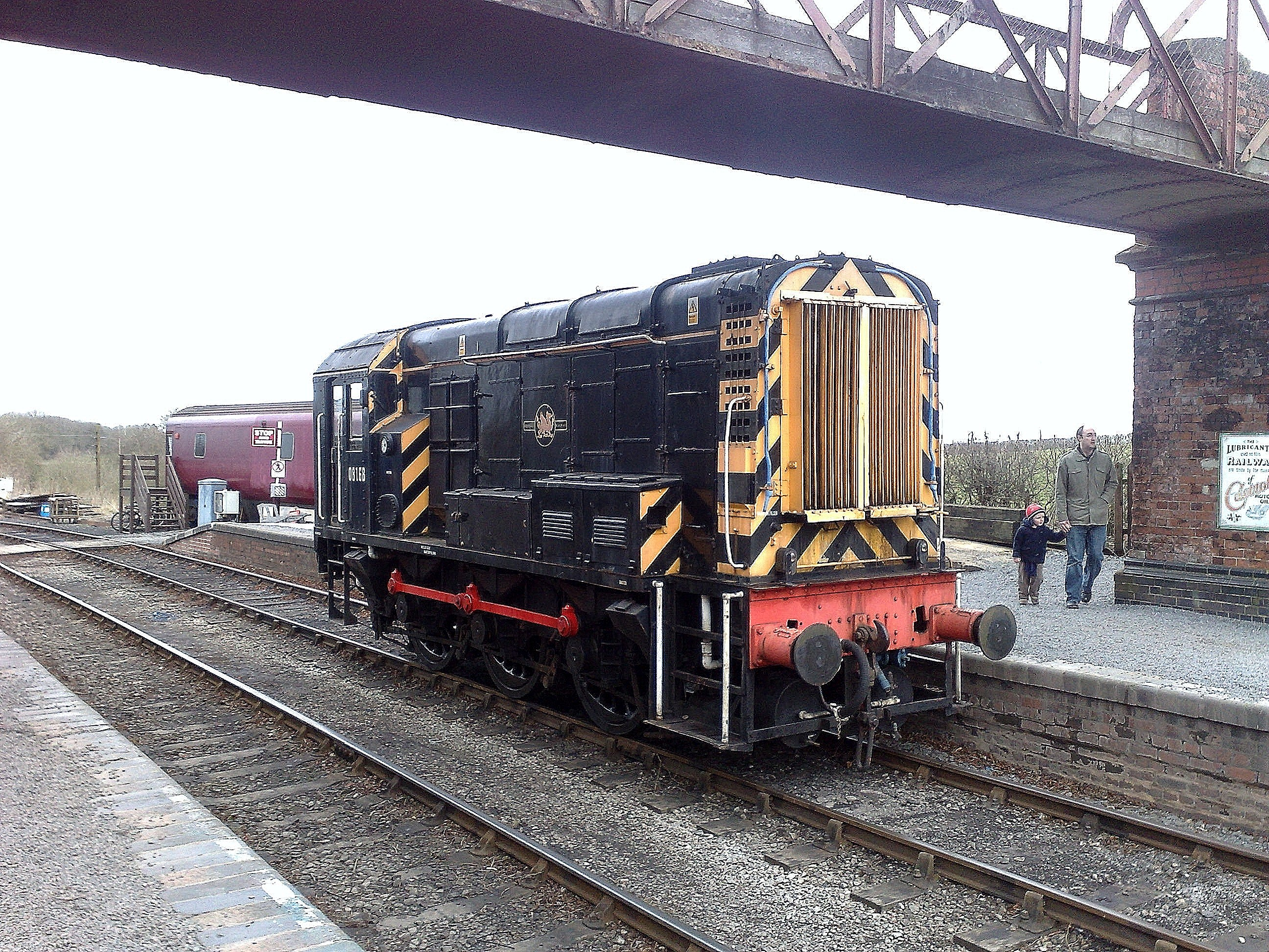 British Rail Class 08 08168 at Shackerstone Station, Battlefield Line Railway